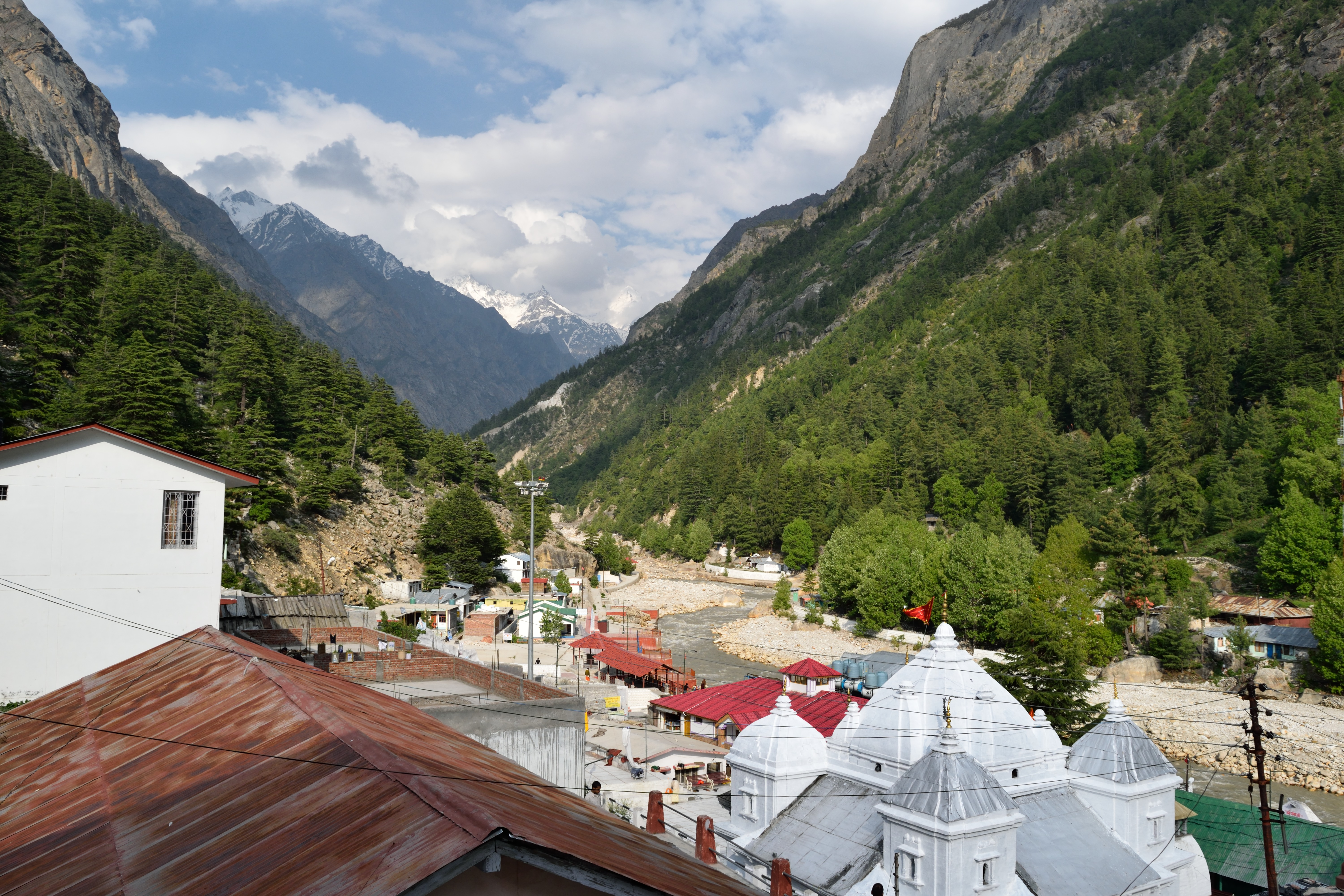 Gangotri is the city of origin of river ganga. ganga is a holy river and hence regarded as a goddess. we can observe the temple of goddess and the river ganga flowing by. the valleys around the river are the temple in it's self.